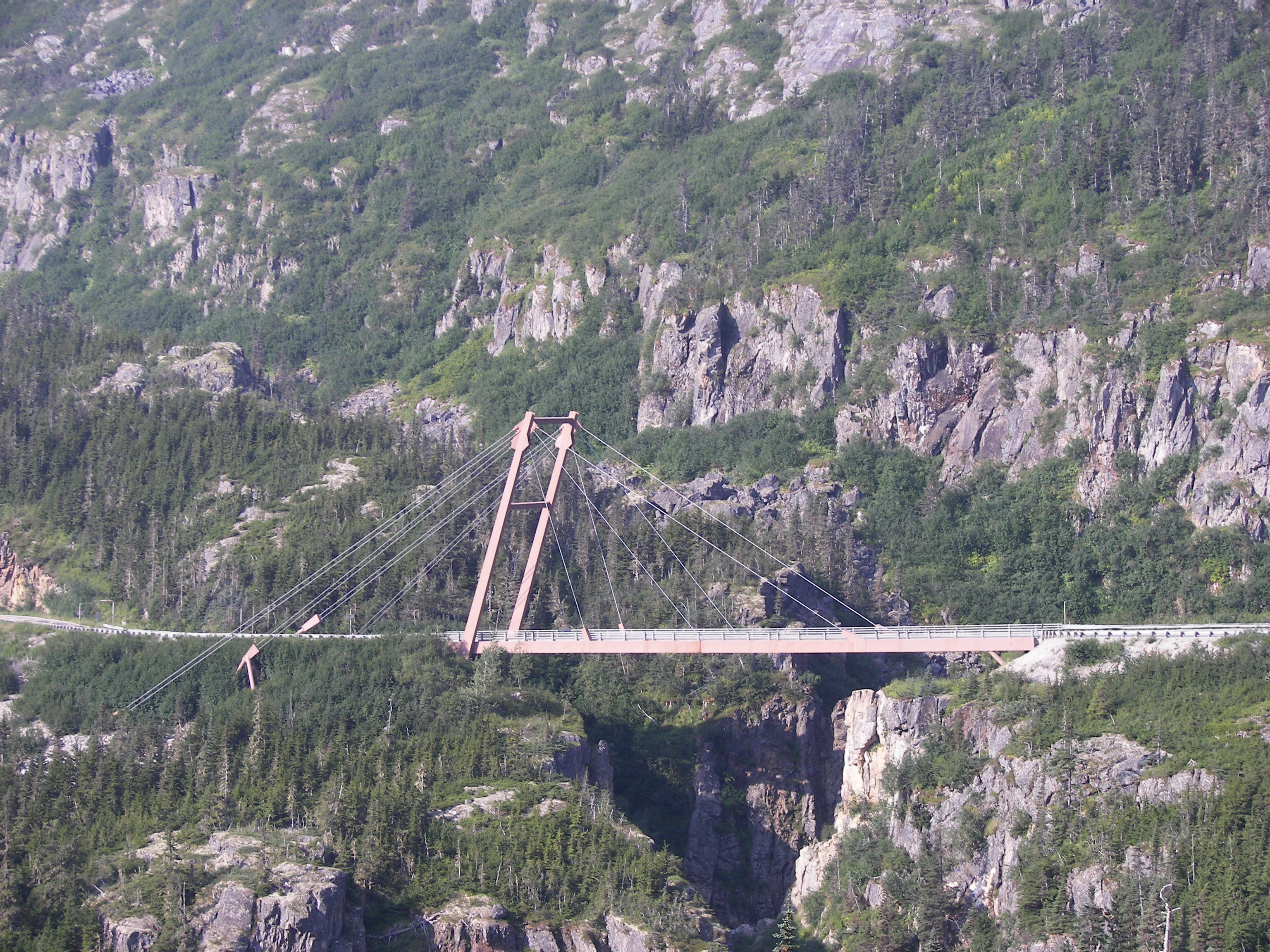 Captain William Moore suspension bridge on the South Klondike Highway in Alaska.